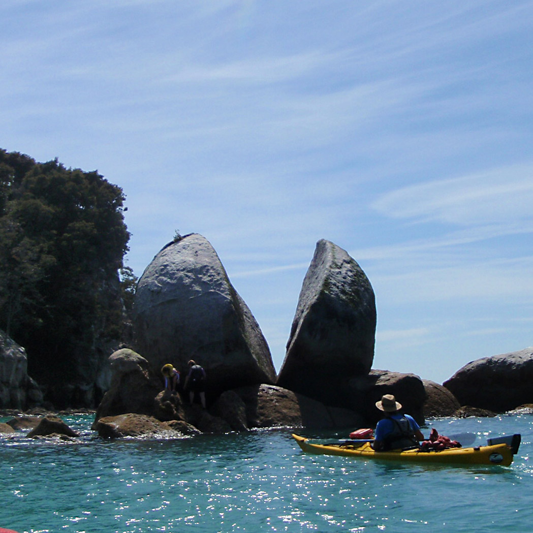 Split Apple Rock, Kernsprung - by physical weathering, Location: Abel Tasman National Park, New Zealand